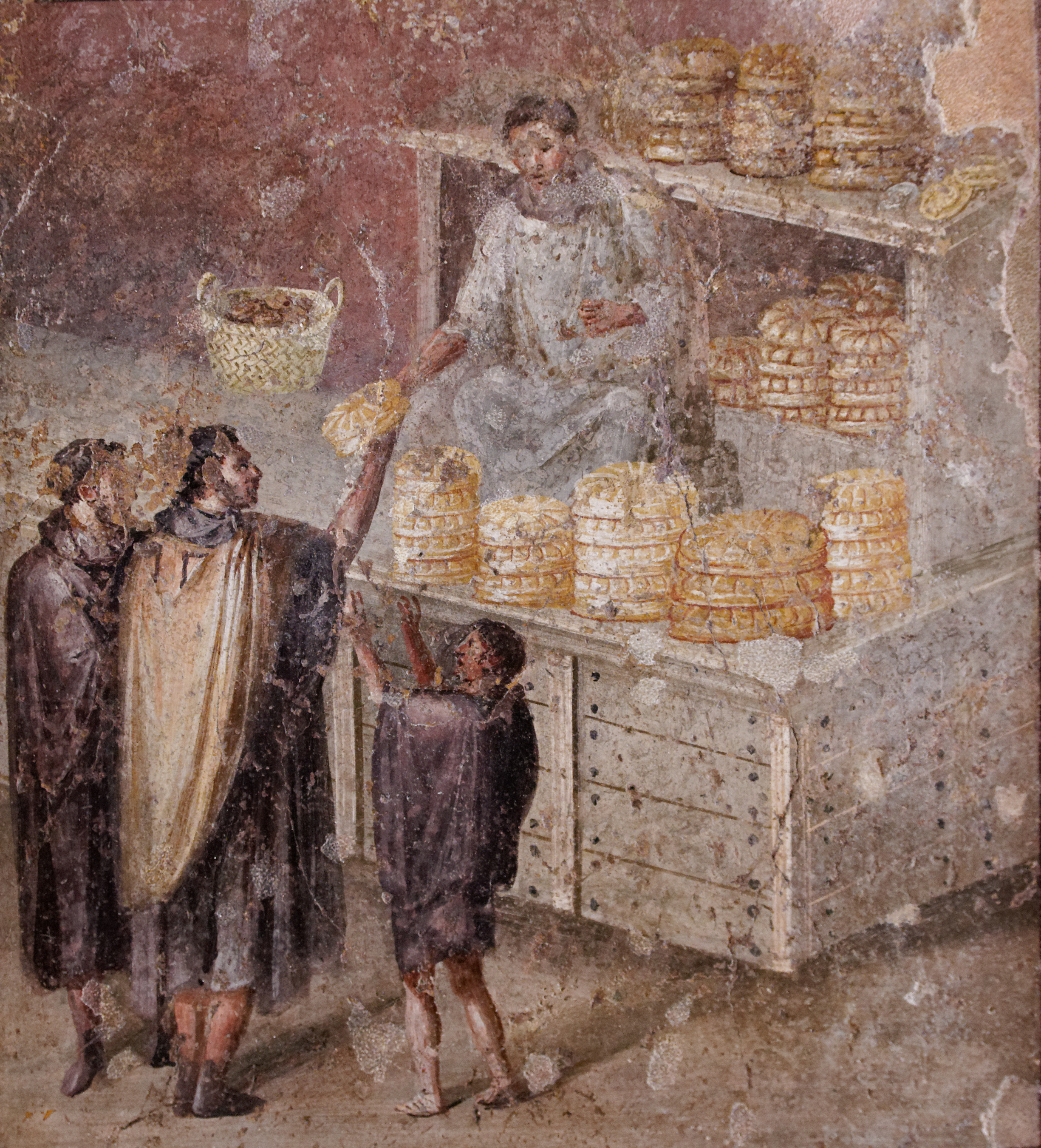 This represents either a distribution of bread by a candidate for office (wearing the 'toga candida' or whited toga of the electoral candidate); or, since he is seated upon a tribunal, and perhaps already an official, the whited toga would, therefore, be a sign of a plebeian office, e.g., aedile of the plebs. NB: Because there is no exchange of money or shopfront in this image, it cannot be a "sale of bread" as often assumed.